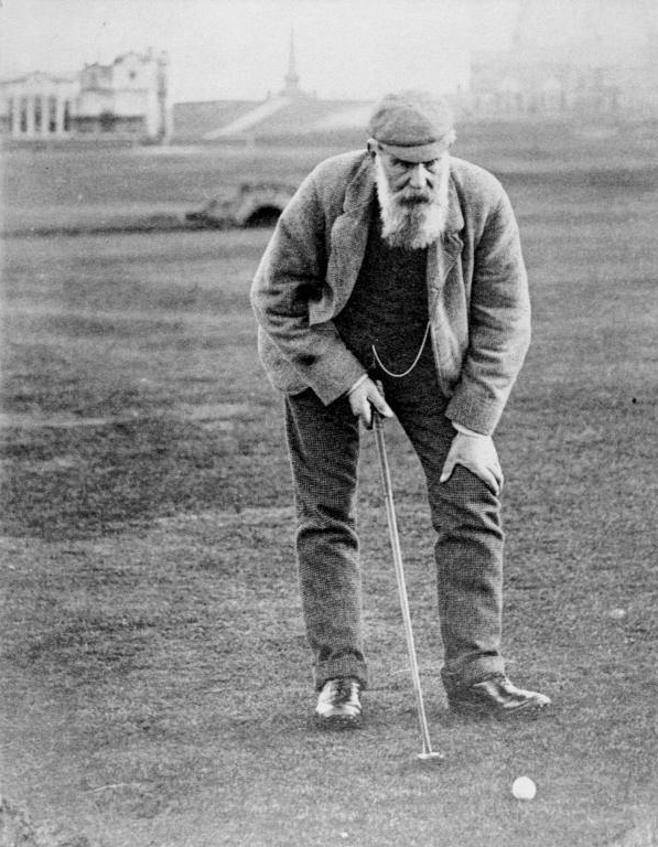 Old Tom Morris addressing the ball, ca. 1905